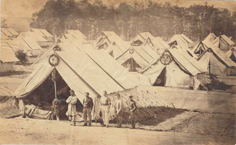 Digital ID: 1150191. United States Sanitary Commission -- Creator. Tyson Brothers -- Photographer. c. 1865; Date depicted: 1863 Notes: Title from album sheet. Alternate title from published copy, USSC box 1082, no. 36. Source: United States Sanitary Commission records, 1861-1872, bulk (1861-1865). / Photographs, prints and drawings / Photographs and drawings (more info) Repository: The New York Public Library. Manuscripts and Archives Division. See more information about this image and others at NYPL Digital Gallery. Persistent URL: Rights Info: No known copyright restrictions; may be subject to third party rights (for more information, click here)